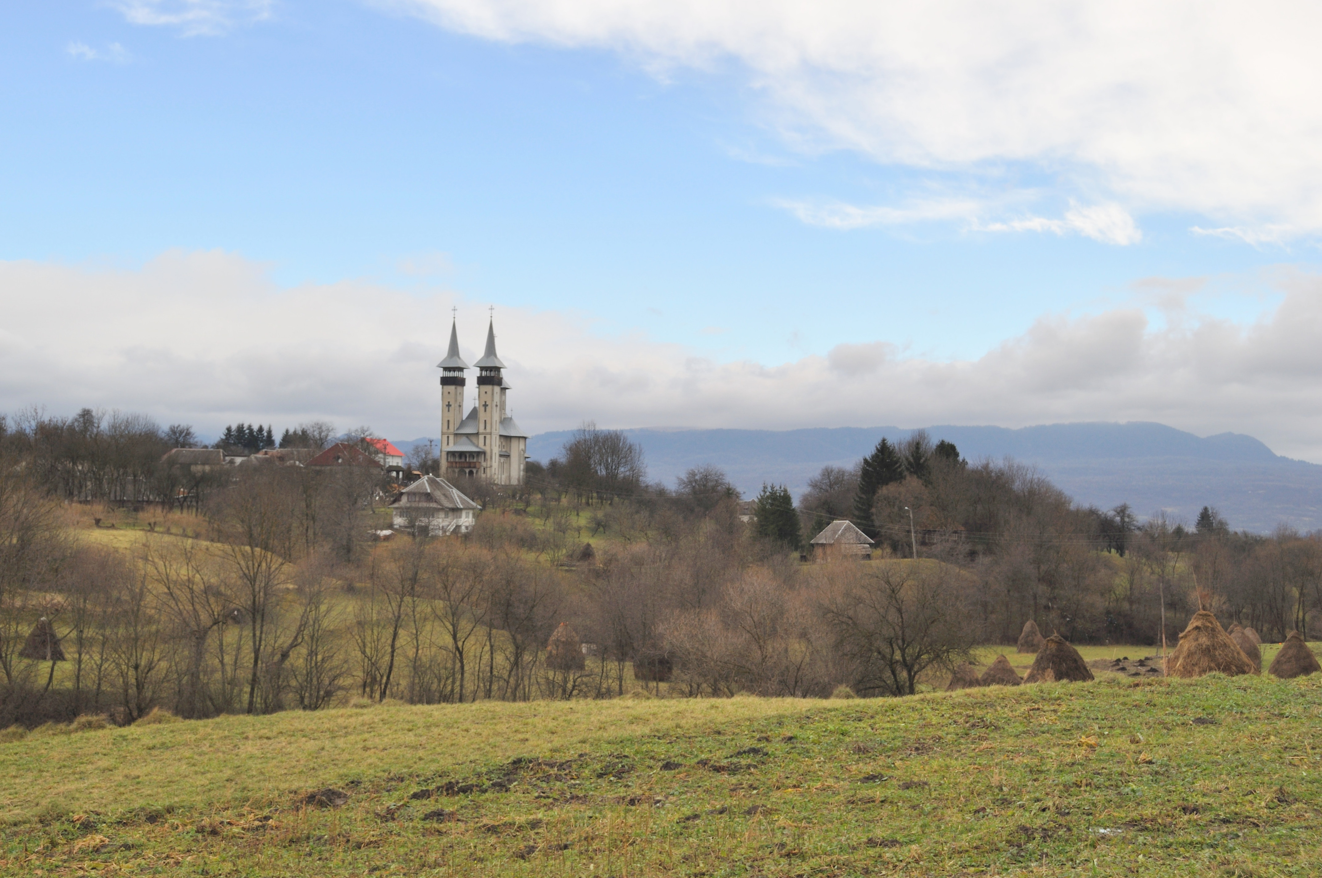 Breb, Maramureș county